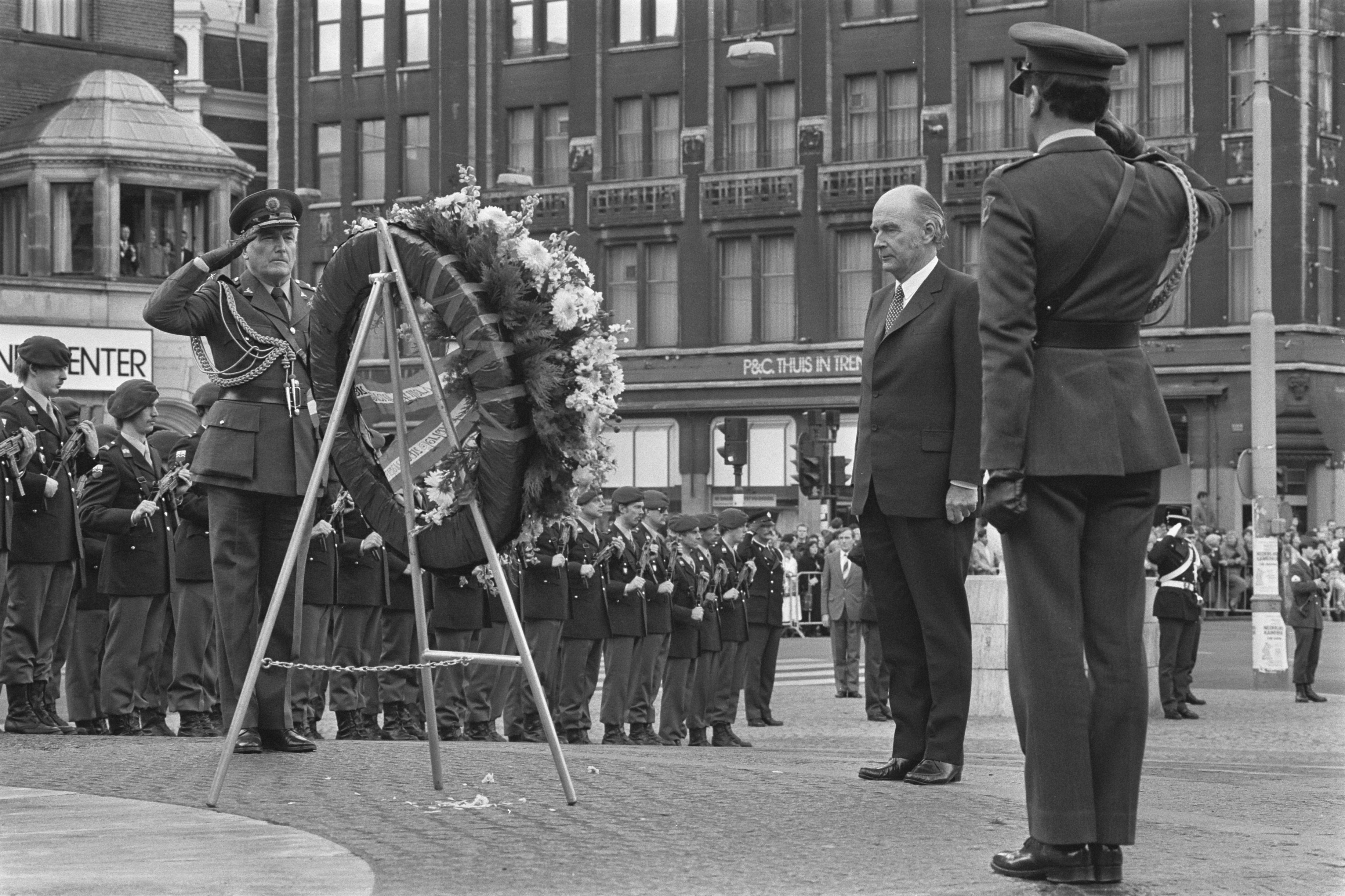 Irish President Patrick Hillery visiting the Netherlands; wreath laying at the monument on the Dam in Amsterdam